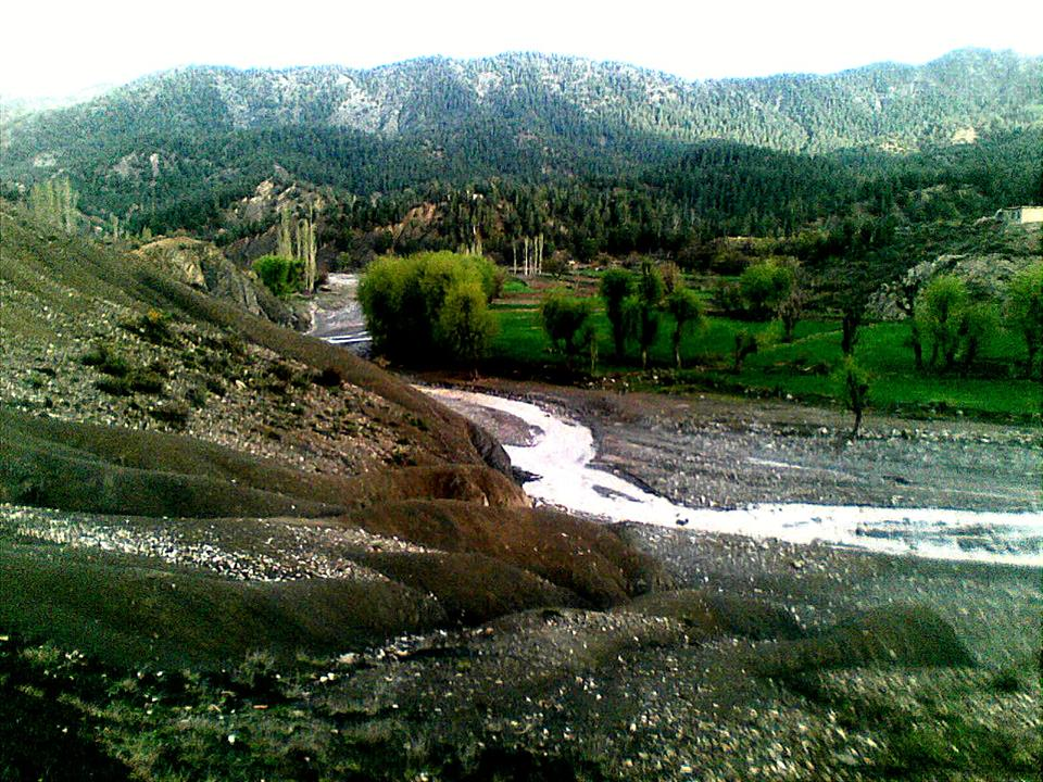 Zerok green mountains photo taken by S.Zadran